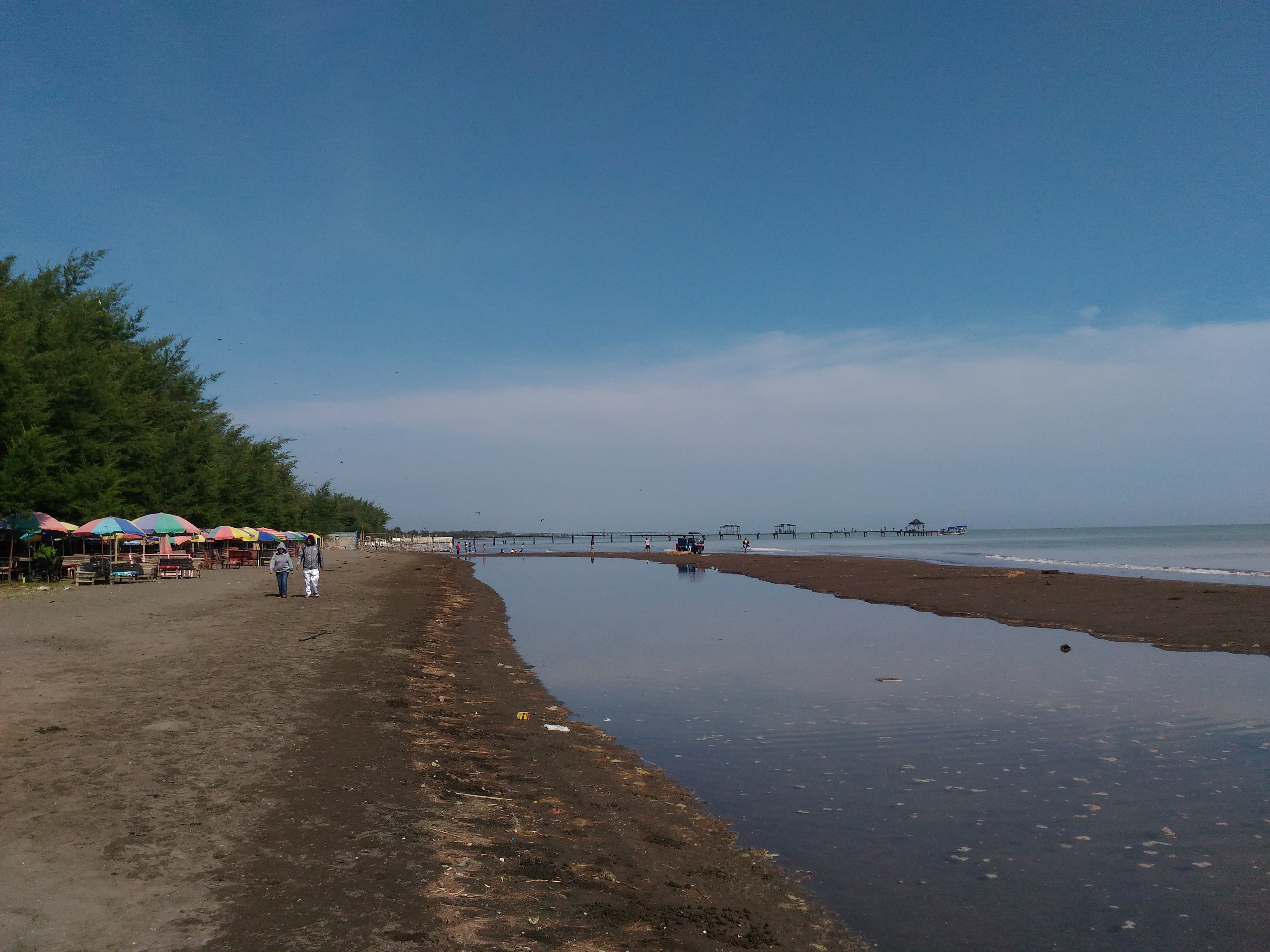 Widuri Beach, 17-8-2017. Coastal shore and sandbars.